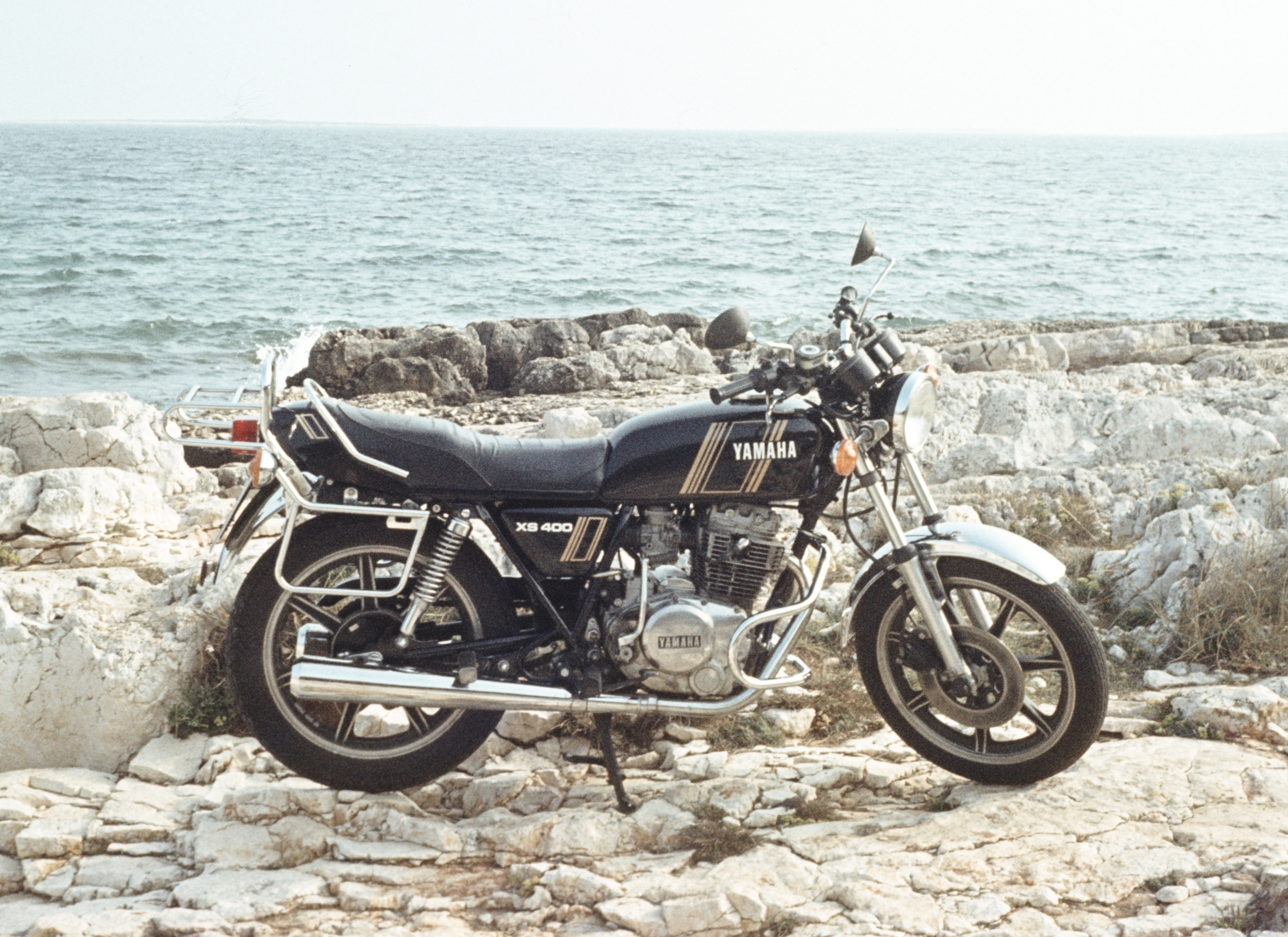 Motorbike Yamaha XS-400 (black)